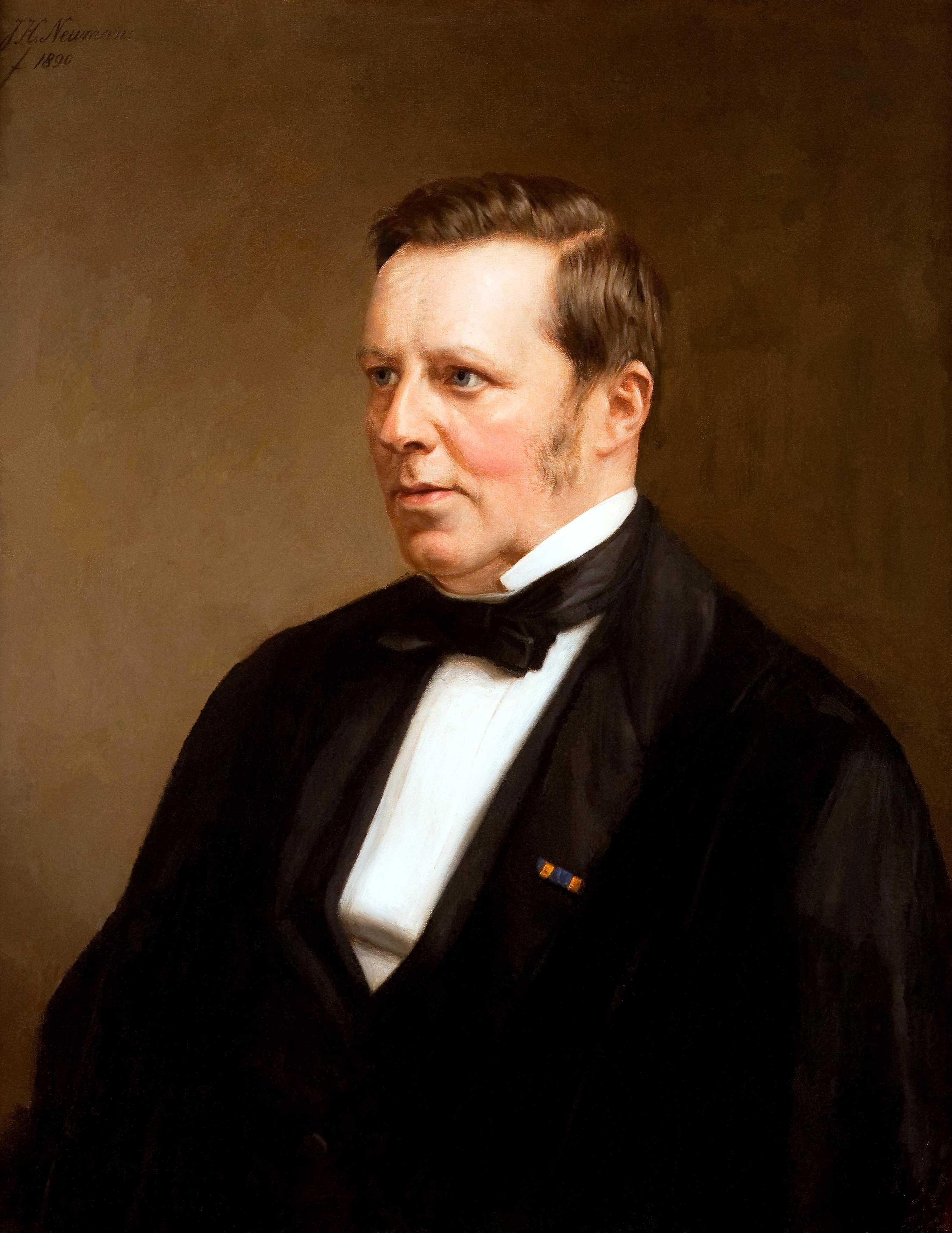 Carel Gabriel Cobet (1813-1889) Dutch Classical scholars